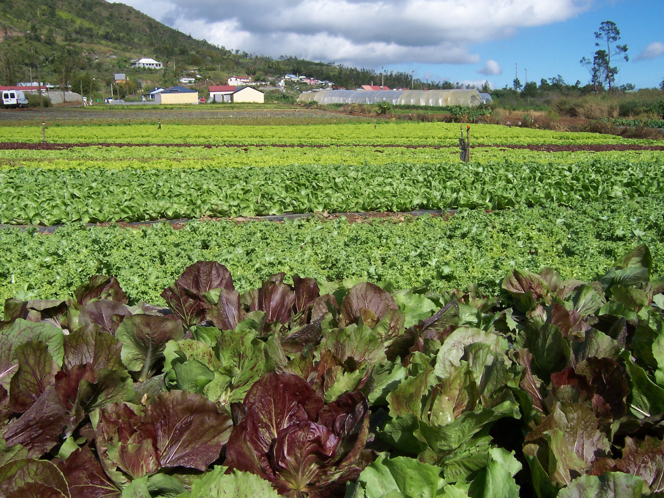 Lettuce fields in the small village of Dos d'Âne, a mountain hamlet of the french commune of La Possession, on Réunion island